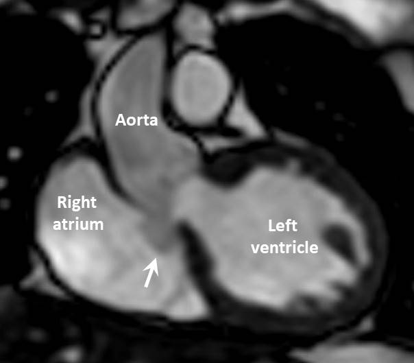 Magnetic resonance imaging of heart demonstrating intact sinus of Valsalva aneurysm (white arrow)extending from non-coronary cusp into right atrium associated with bicuspid aortic valve